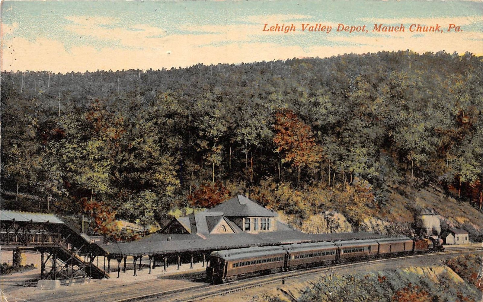 The Lehigh Valley Railroad station at Mauch Chunk (now Jim Thorpe) circa 1913. Postmark shows it was sent in 1913.